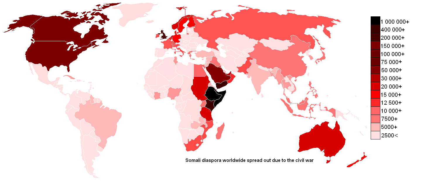 Where Somalis live outside of Somalia. This is made in the year 2006.